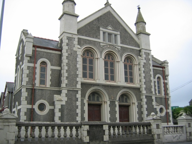 Capel Disgwylfa, Holyhead. Opened in the form as seen in the photo in 1909, Disgwylfa closed in 2001 and the members reunited with Capel Hyfrydle.